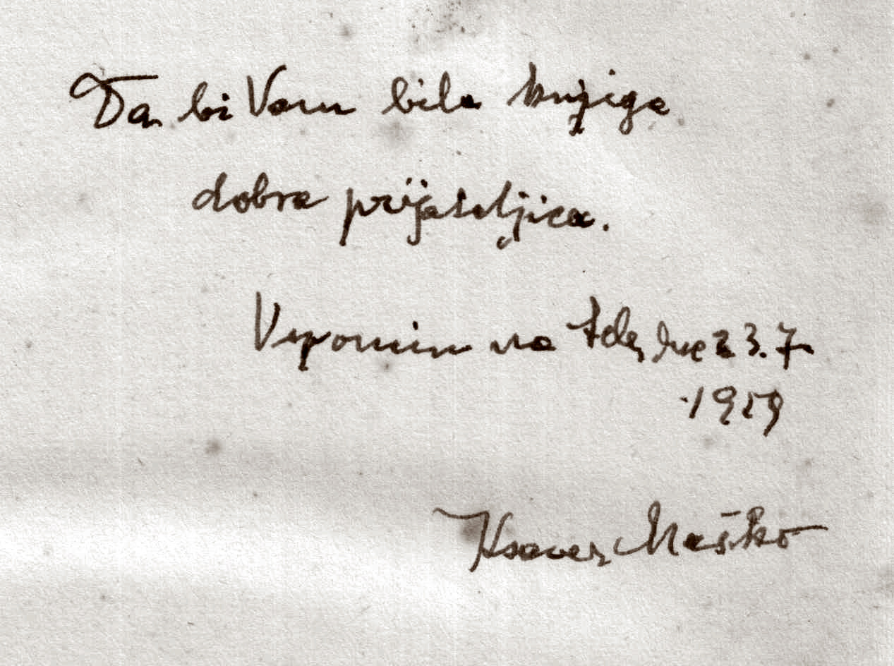 Dedication with autograph (sepia) of writer Franc Ksaver Meško with his hand in his book Izbrano delo IV. (MD Celje 1959) donated to me on 23. VII. 1959 and I scanned it